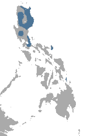 White-winged Flying Fox (Desmalopex leucopterus) range